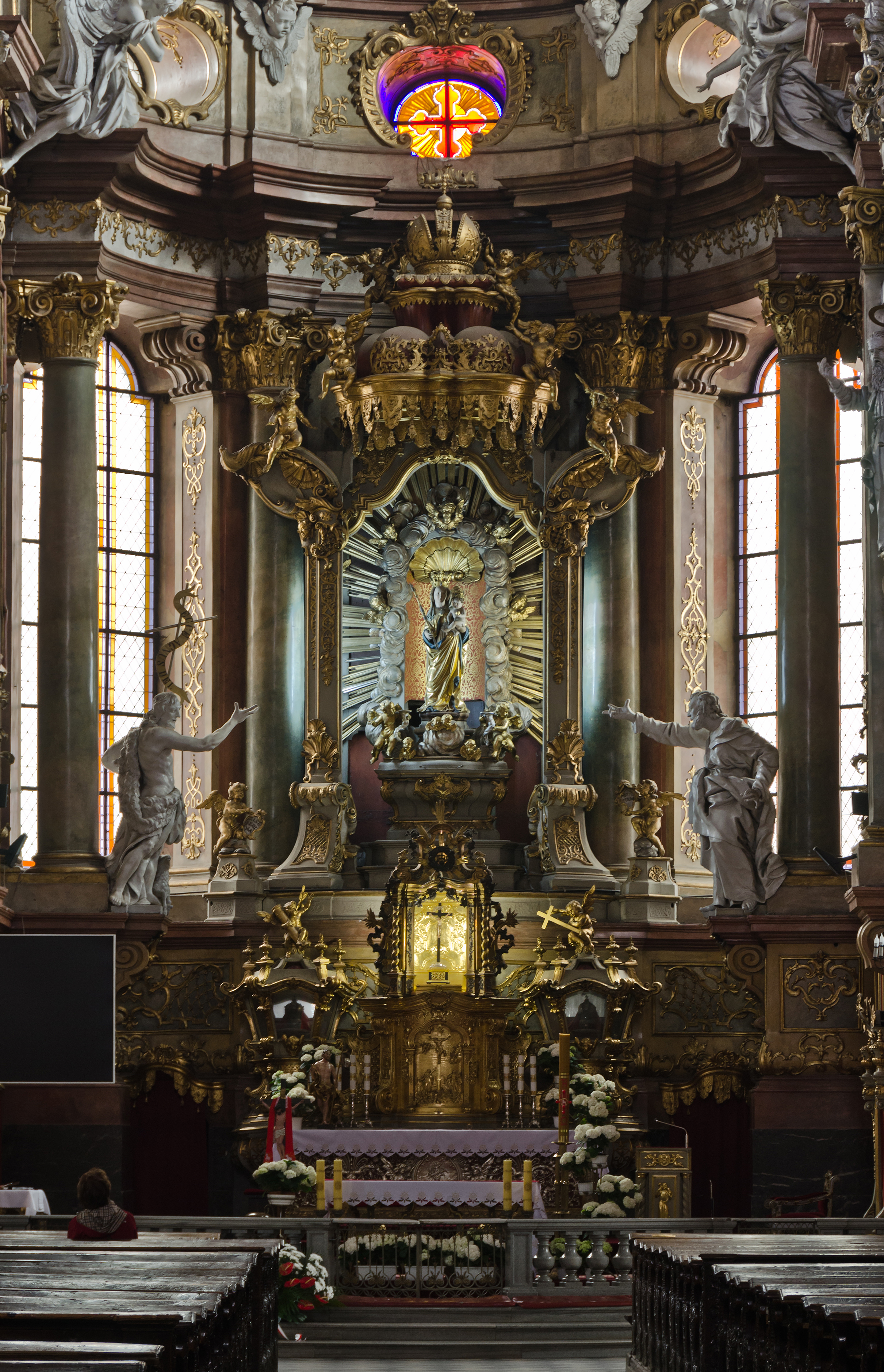 Church of the Assumption in Kłodzko